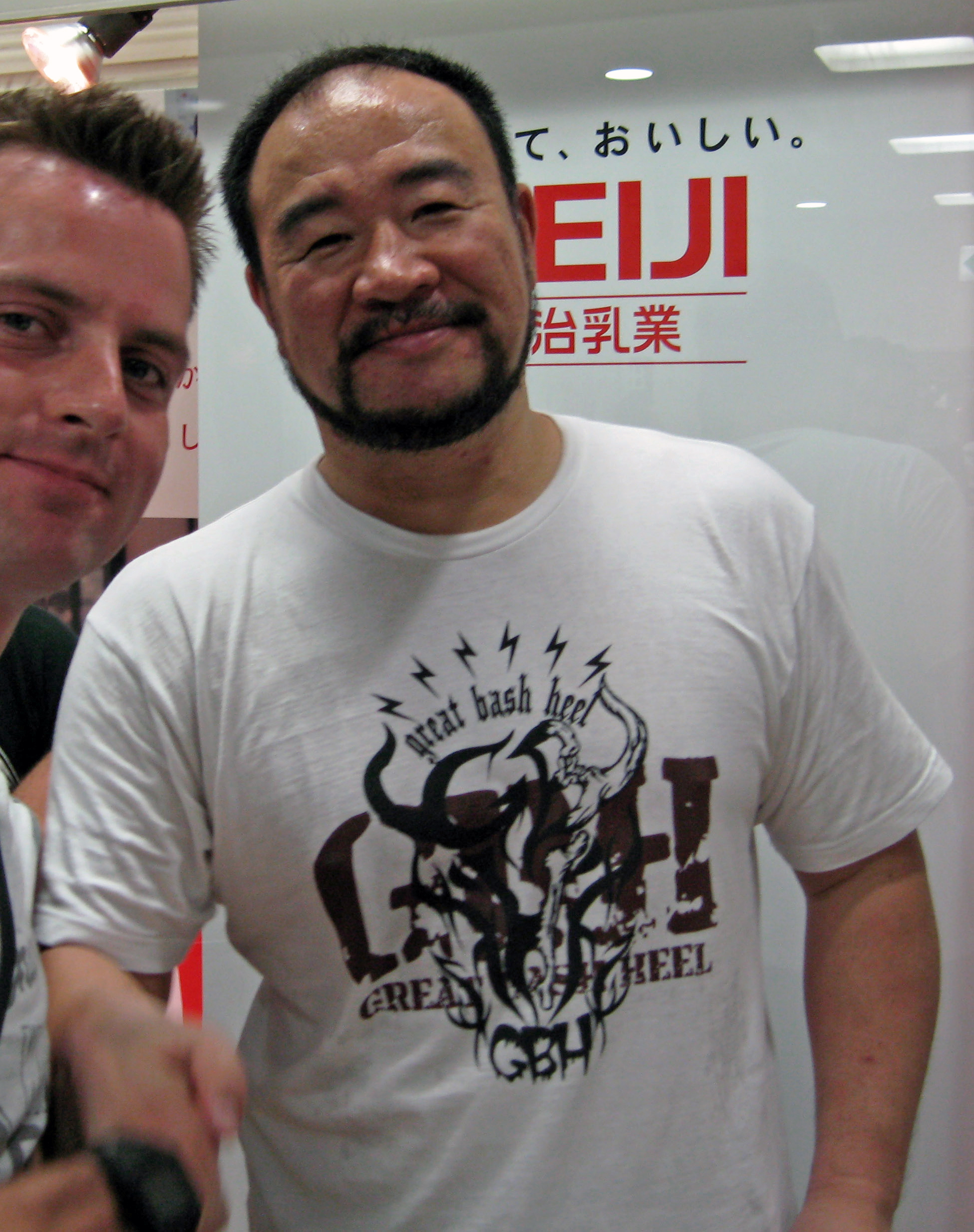 Japanese pro wrestling veteran Shiro Koshinaka. (excerpt from the original text)